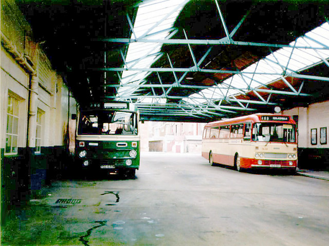 Two Alexander Y-Type bodied buses pictured in Kelso Bus Station in Kelso, in the Scottish Borders. They both presumably belong to the Scottish Bus Group subsidiary Lowland Scottish Omnibuses Ltd, which was incorporated on 1 March 1985 and had at this time pretty much a monopoly on bus services in the borders. The Lowland identity of yellow and green is nowhere to be seen here yet though. The bus on the left wears the green and cream of SBG Eastern Scottish, from which Lowland was created by hiving off its south eastern depots. The bus on the right is on loan from another SBG subsidiary, Western Scottish.